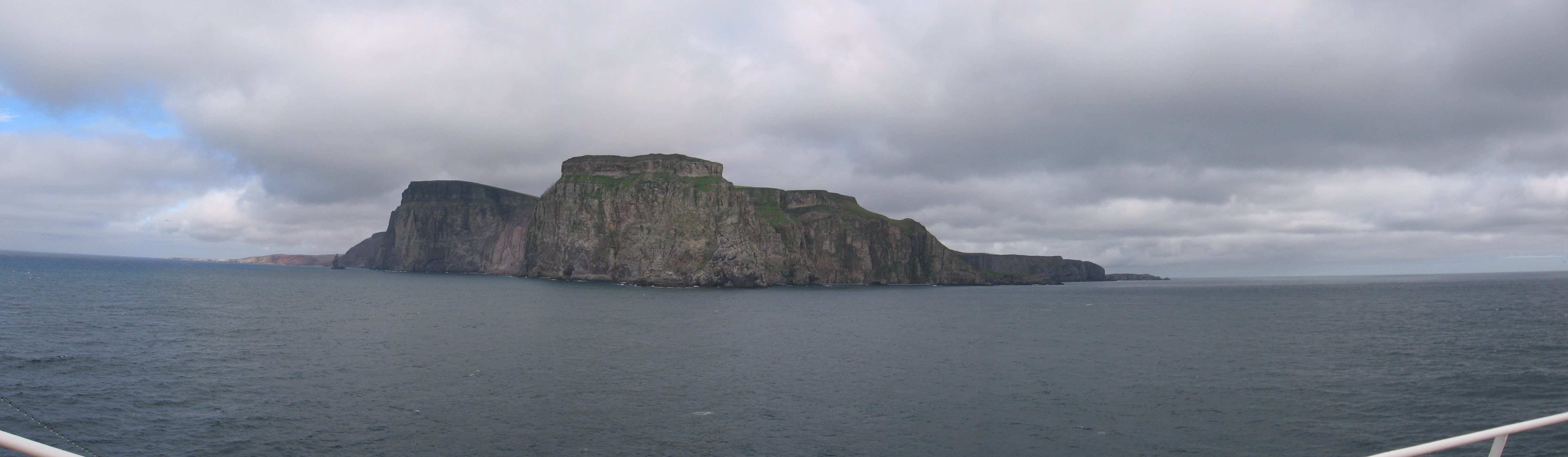 Bear Island (Bjørnøya) viewed from the south. Taken from the m/s Prinsendam.